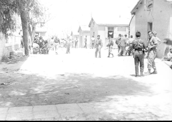 Members of the Harel Brigade stationed in the Schneller Orphanage. 1948